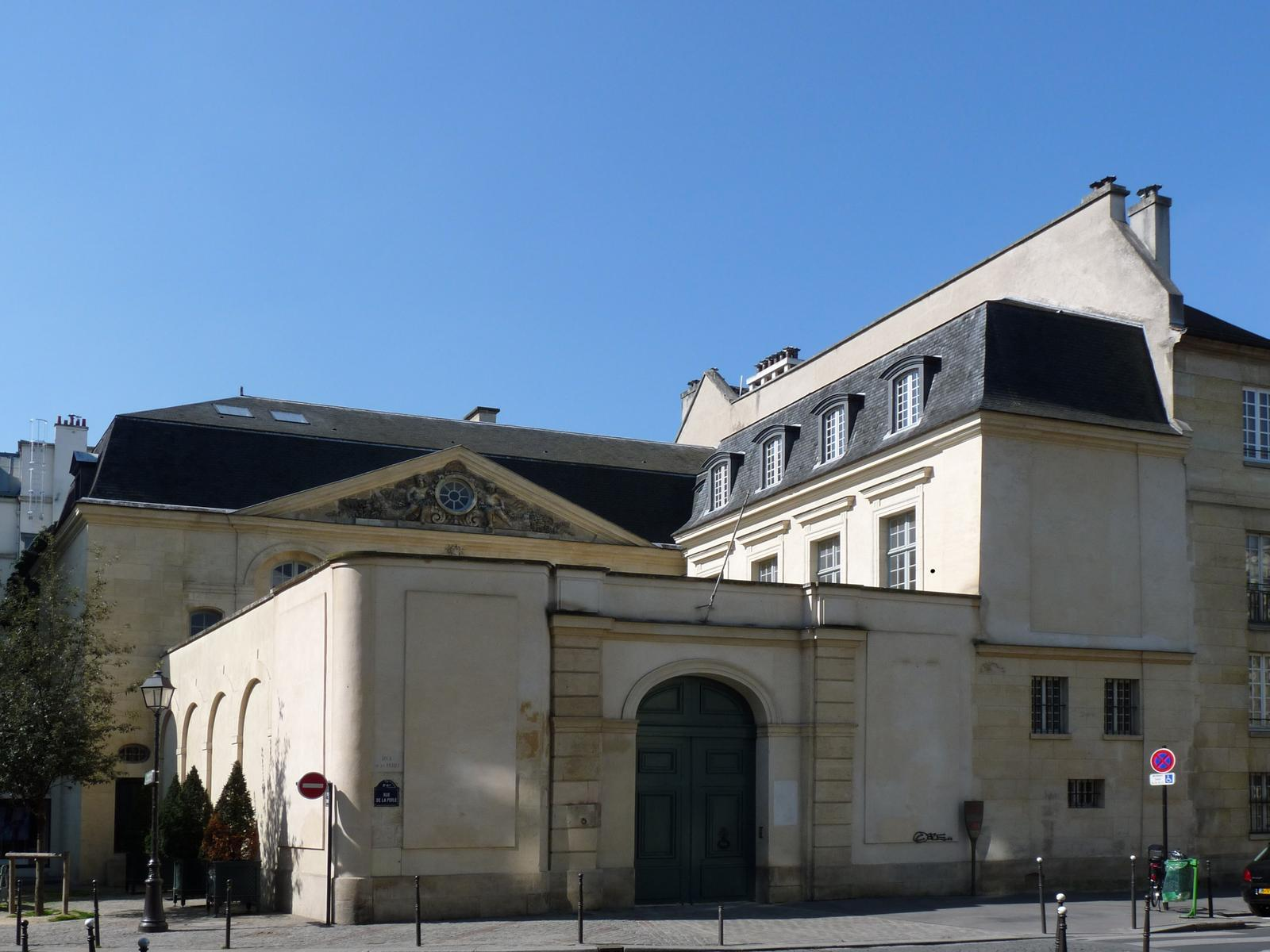 Hotel Libéral Bruant in Paris III, 1 rue de la Perle